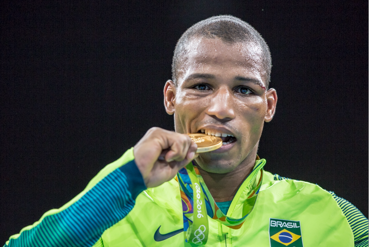 Rio 2016 Olympic Games - Medal Ceremonies. Boxing 60 kg. Gold medal. Conceicao Robson from Brazil